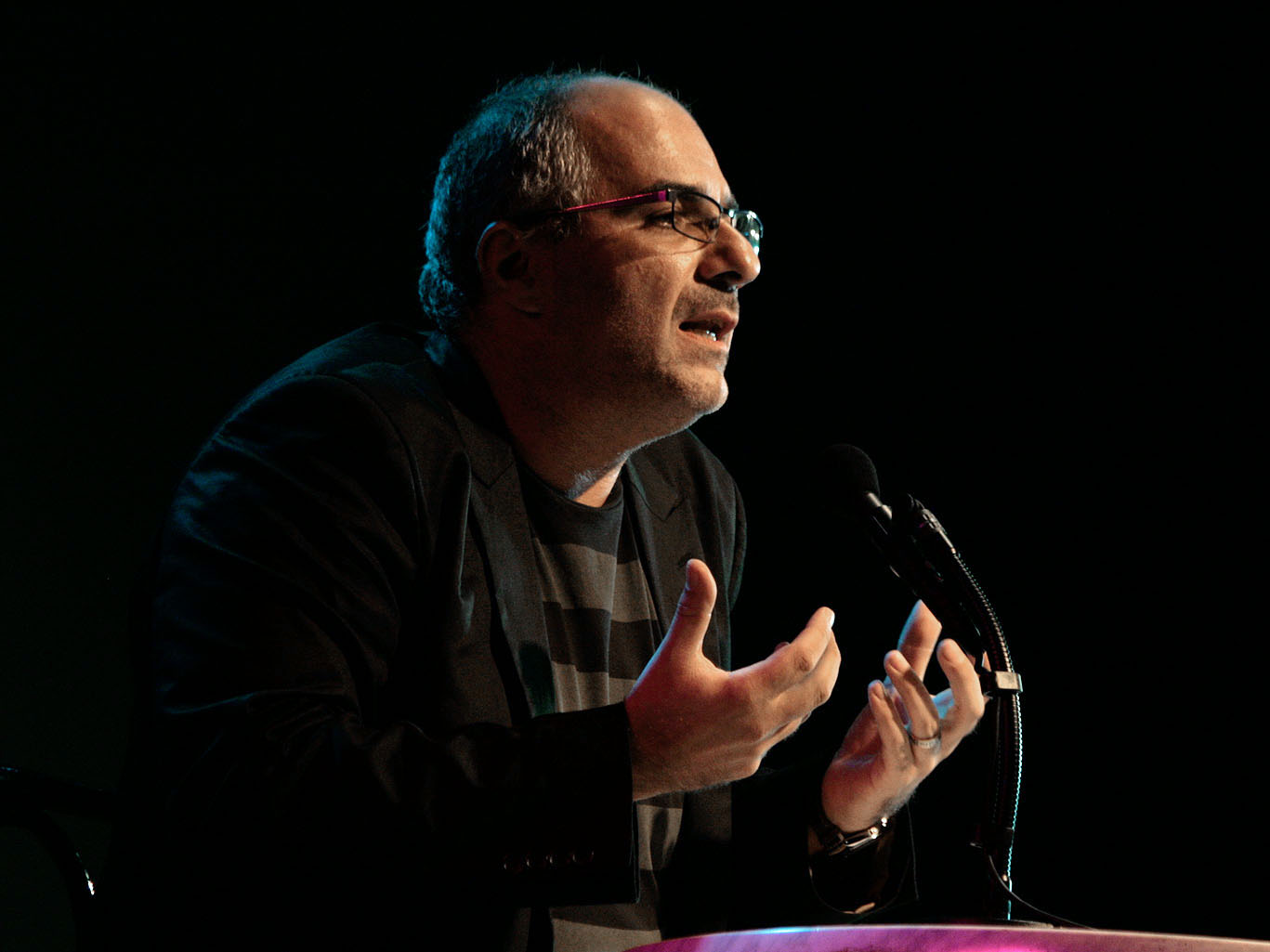 Actor, comedian and writer Michael Niavarani reading from 'Vater Morgana' (literary evening "Rund um die Burg" 2009 near the Burgtheater in Vienna).